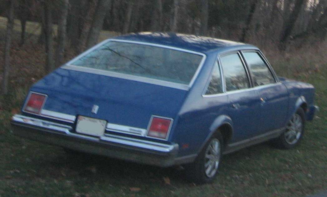 1978-1979 Oldsmobile Cutlass Salon photographed in Upper Marlboro, Maryland, USA.